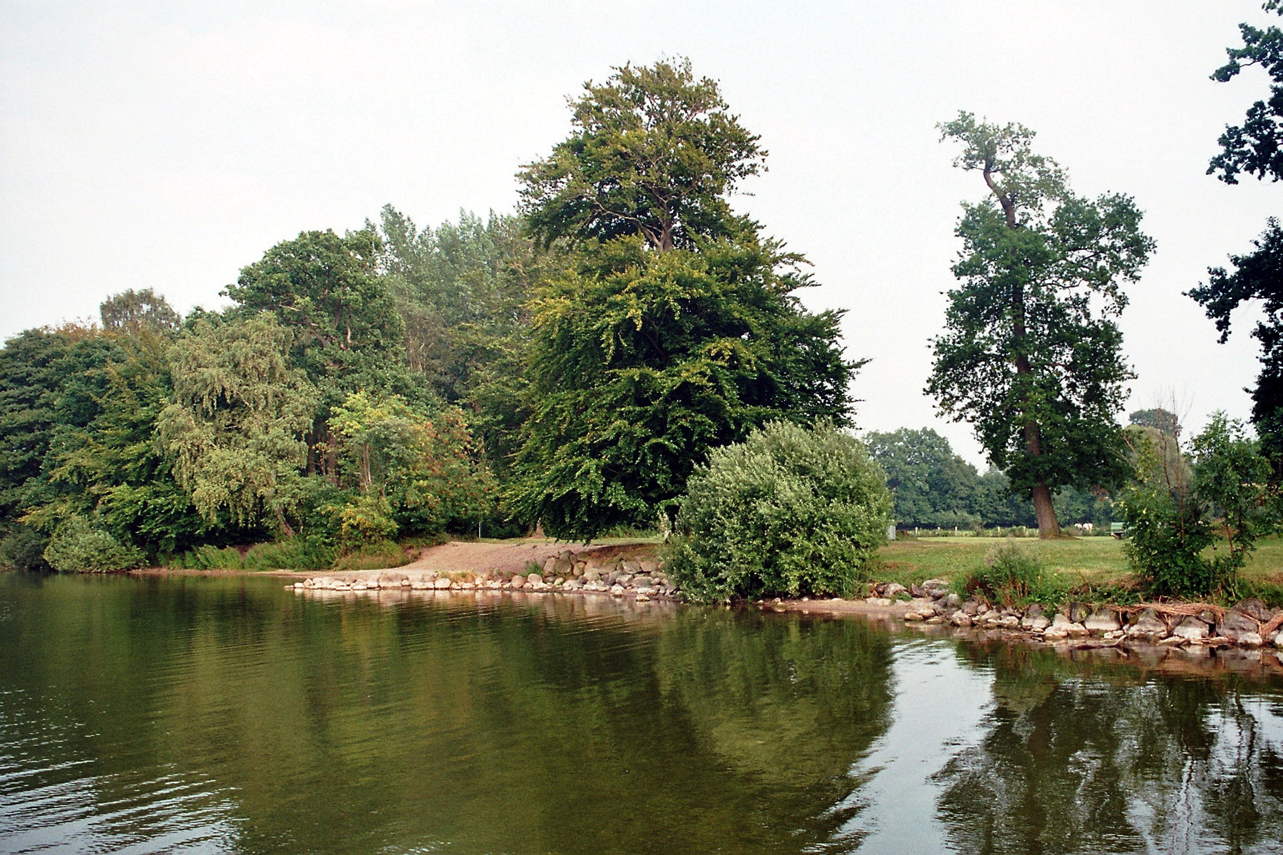 Selent, Lake Selent